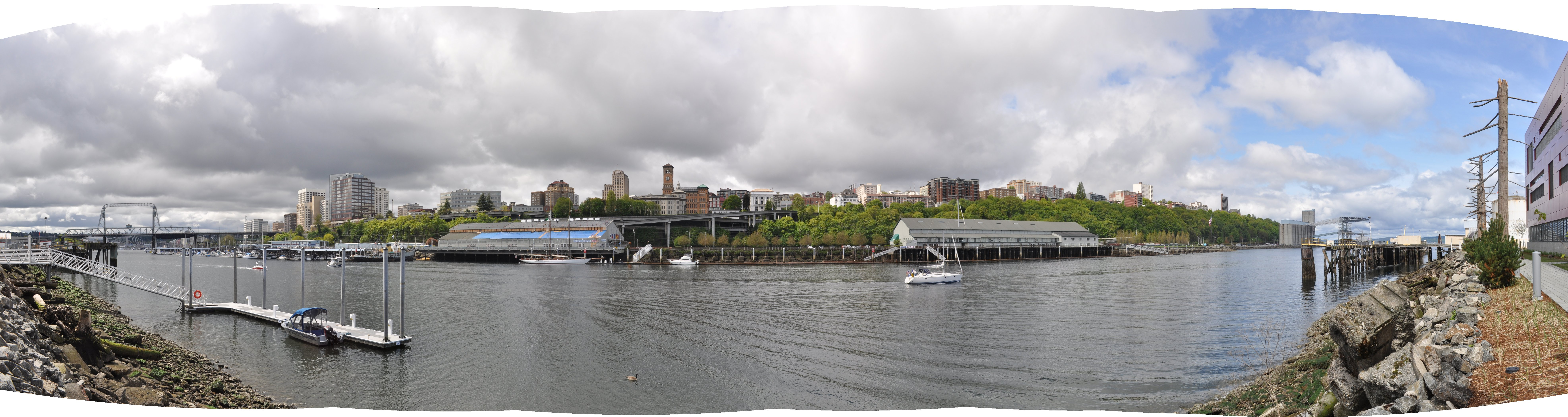 Panoramic view of Thea Foss Waterway, Tacoma, Washington, seen from the south side. The Adventuress happened to be moored on the other side when I shot this. This image was created with Hugin.